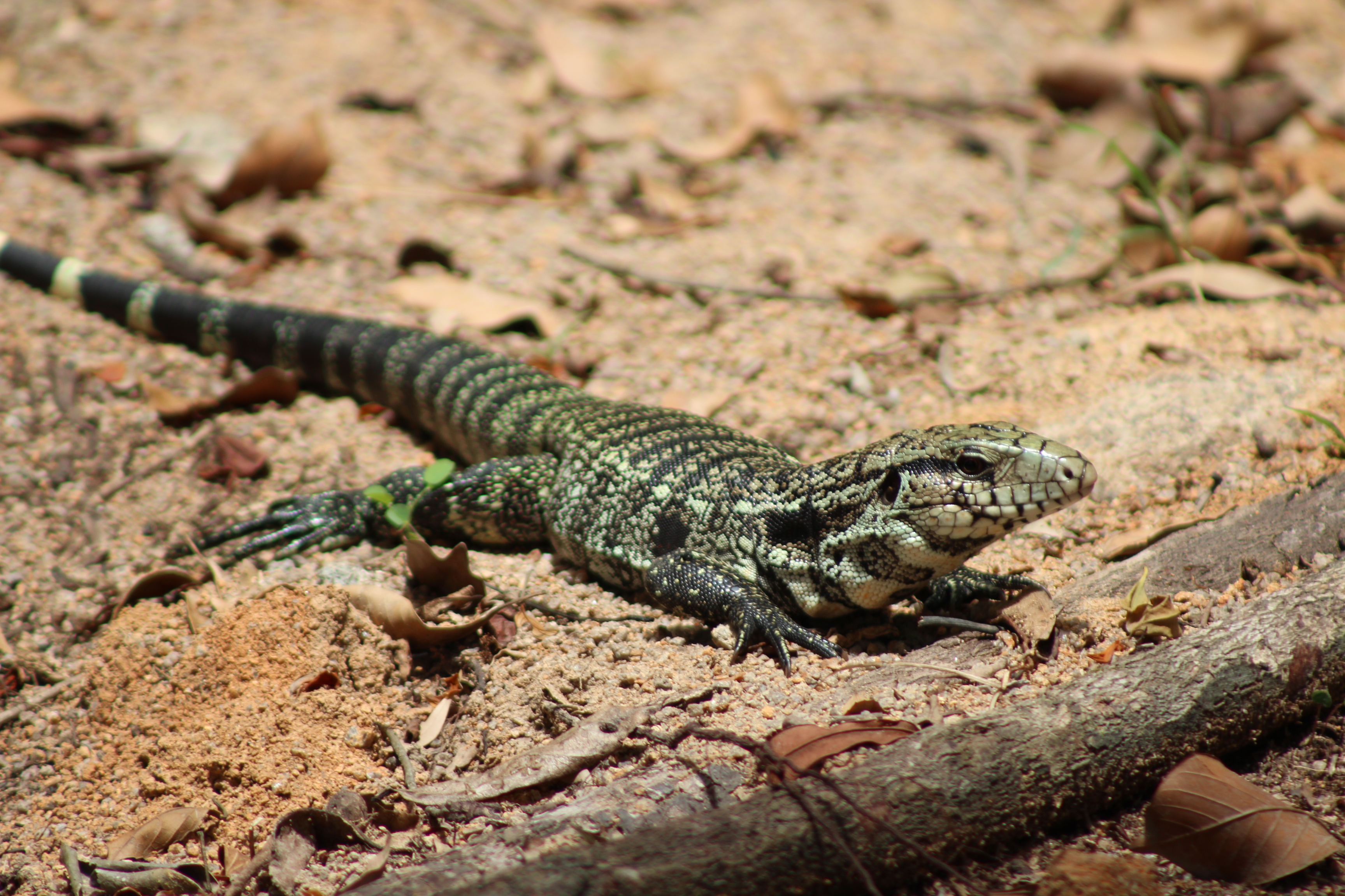 Black and white tegu spotted in Florianópolis, Santa Catarina, Brazil